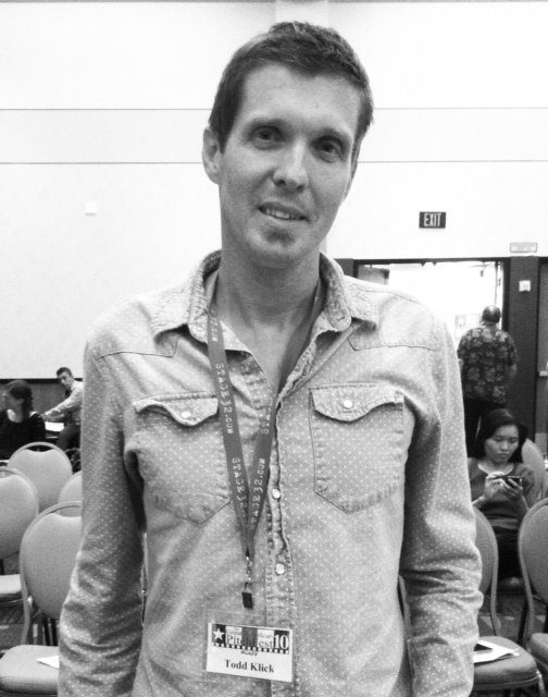 Klick at The Great American PitchFest, Los Angeles, CA on June 1, 2013.